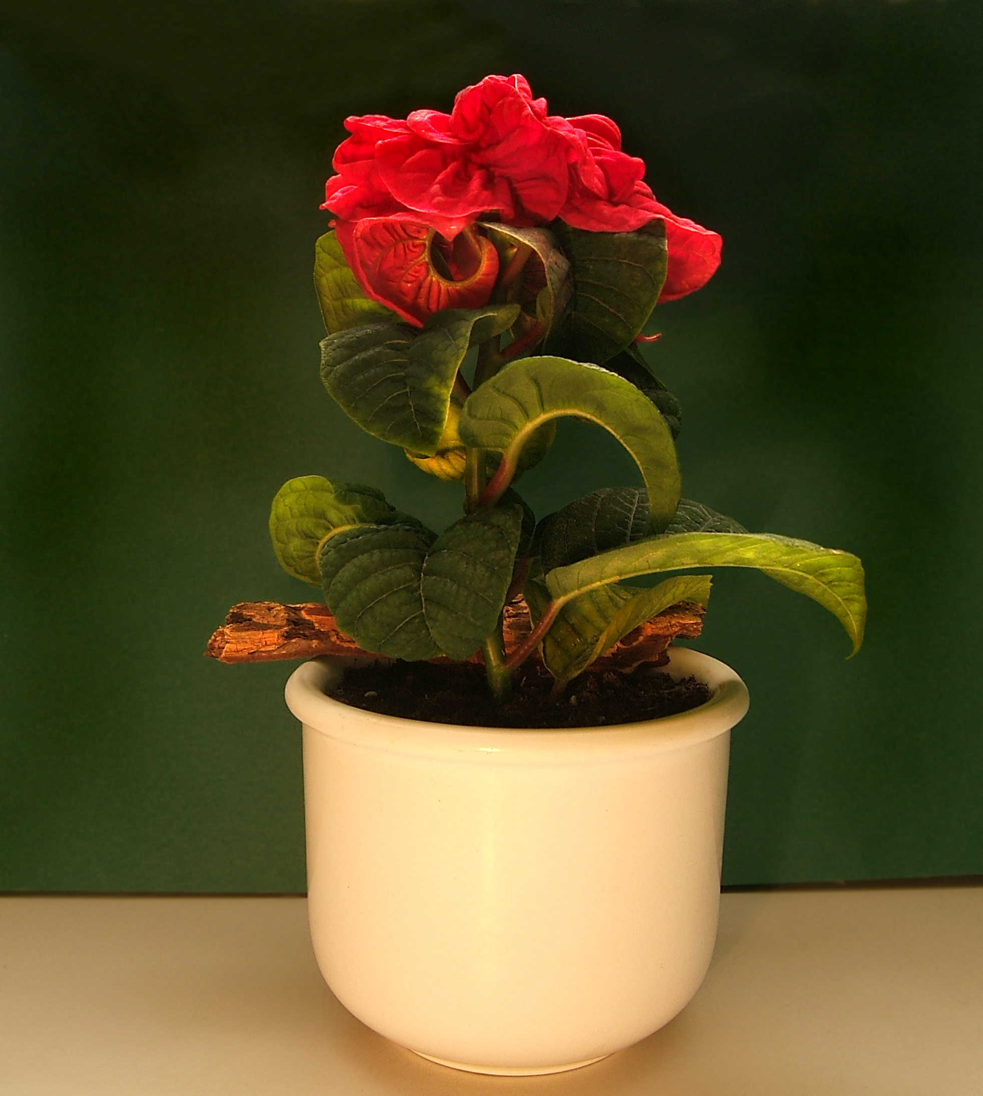 Poinsettia